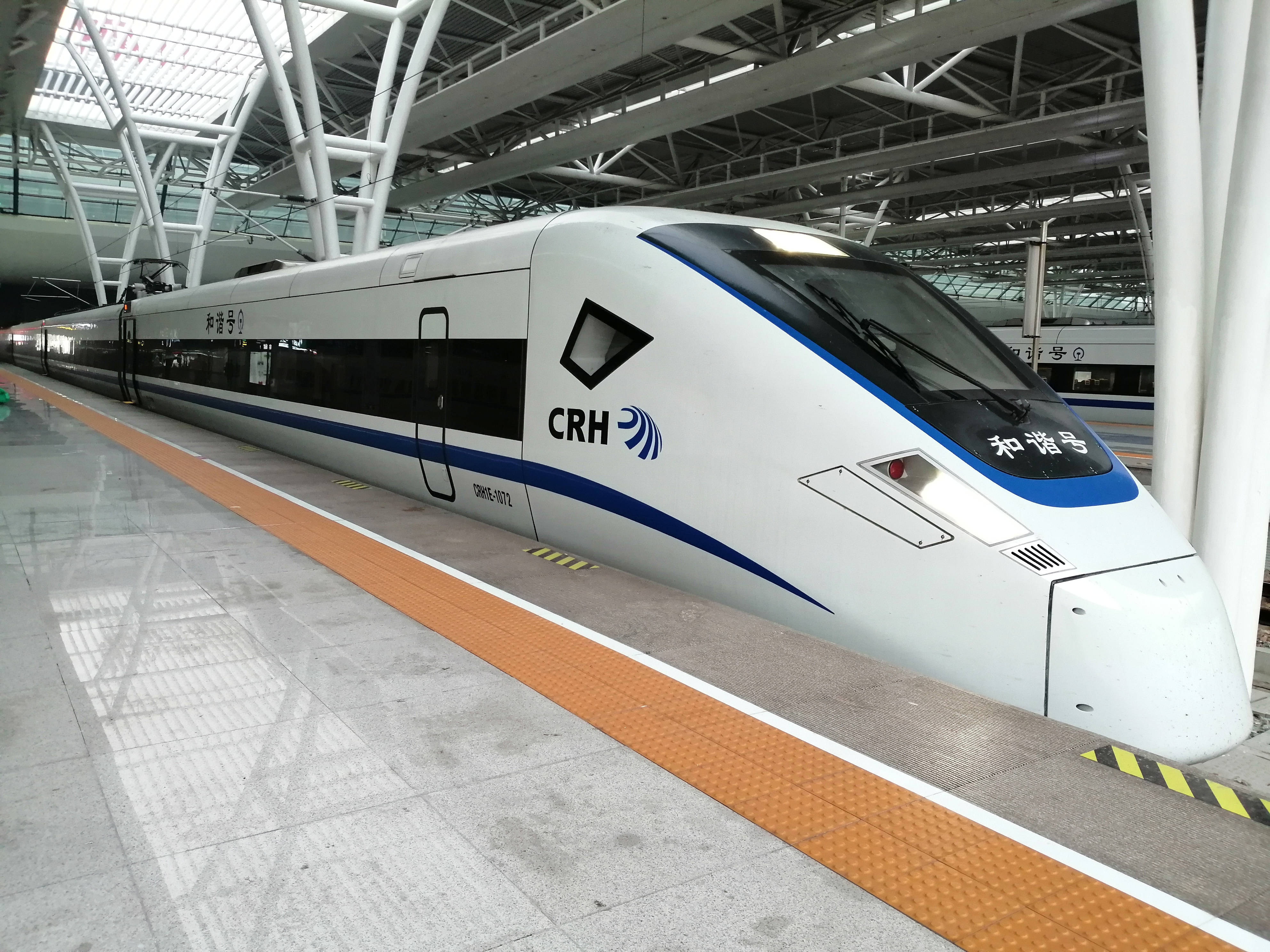 CRH1E-1072 sleeper car, which served as D942, arrived at Shanghai Hongqiao Railway Station. 中文（中国大陆）: CRH1E-1072担当的D942次列车抵达上海虹桥站。